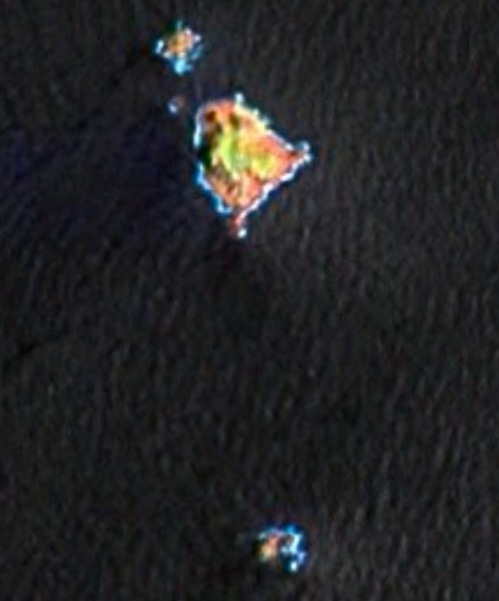 NASA World Wind screenshot of Martin Vaz Islands, South Atlantic Ocean